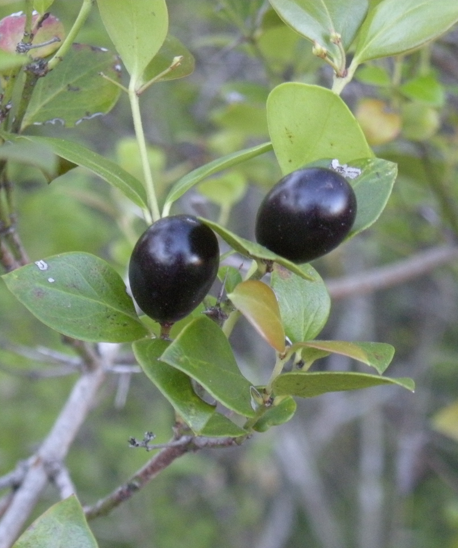 Carissa ovata Carissa spinarum fruit, coastal Central Queensland